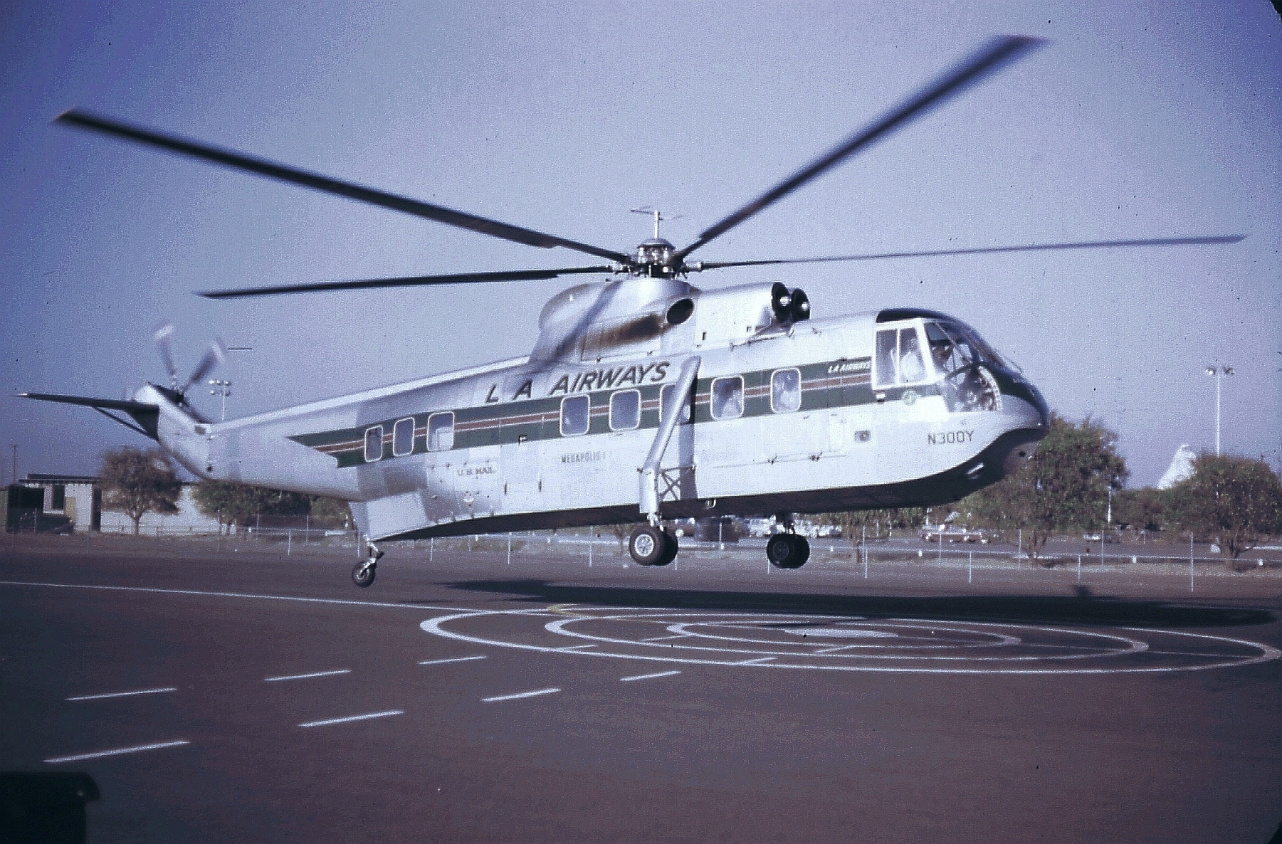 Los Angeles Airways Sikorsky S-61L helicopter, lifting off from the Disneyland Heliport, 1963. This is the same aircraft that crashed—killing all on board—in August, 1968. Note the Matterhorn Mountain in the background.